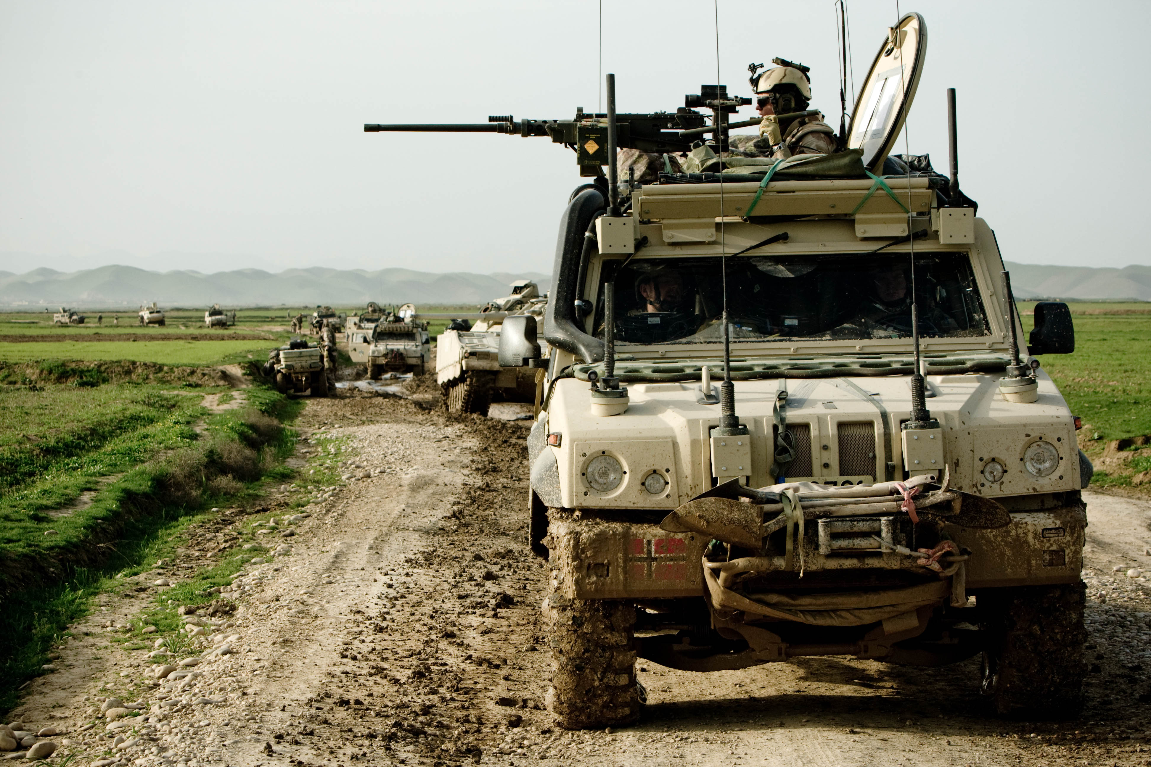 Norwegian soldiers running operations in Faryab province, Afghanistan